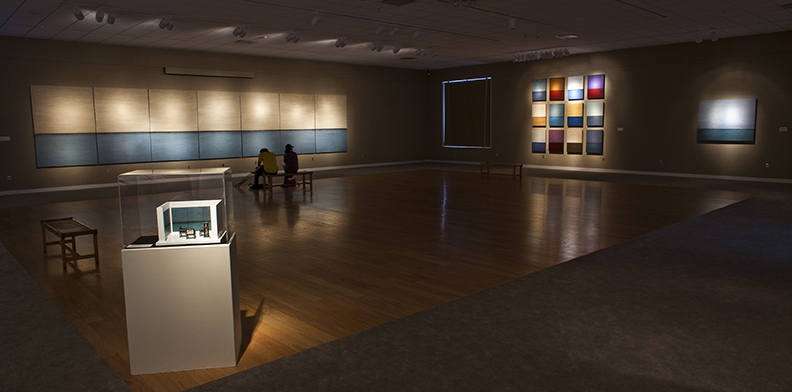 Tobi Kahn exhibition in Evansville Museum 2010